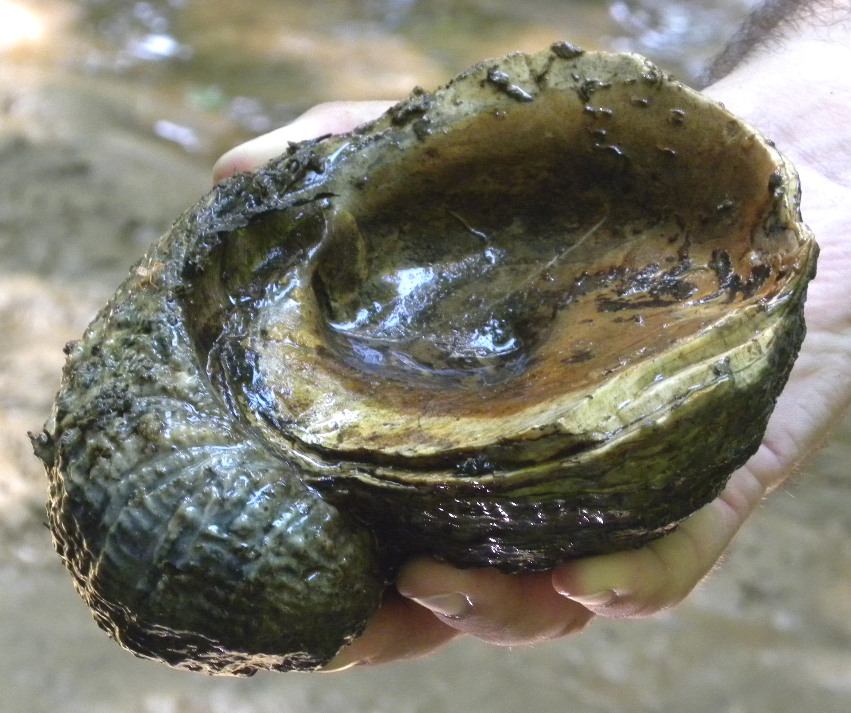 Exogyra costata from the Owl Creek Formation, Late Cretaceous, near Ripley, Mississippi.